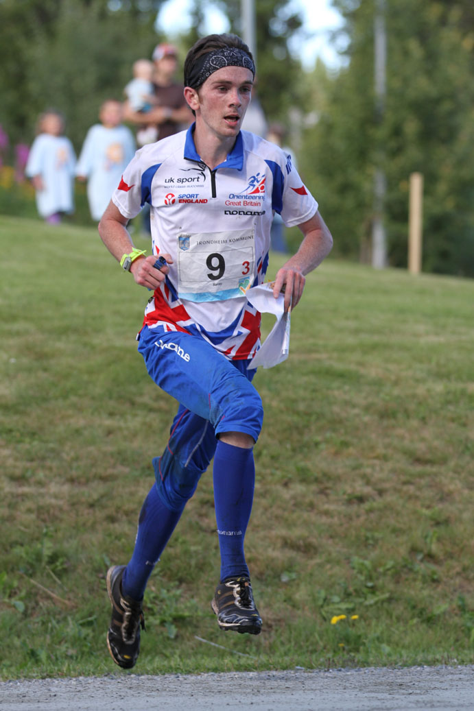 Scott Fraser, Relay at WOC2010